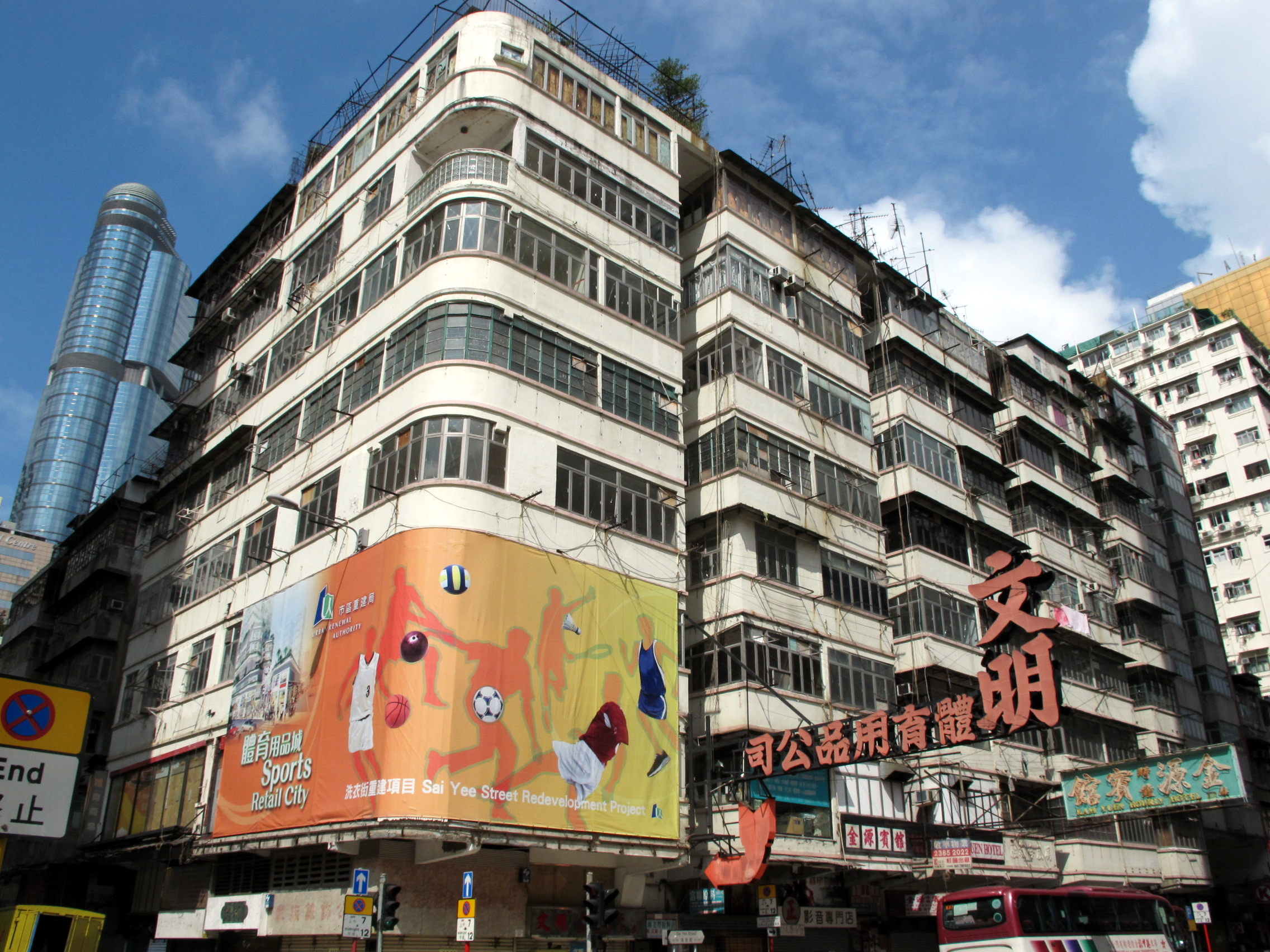 Fa Yuen Street, Mong Kok, Building demolished and replaced by Skypark (Hong Kong)